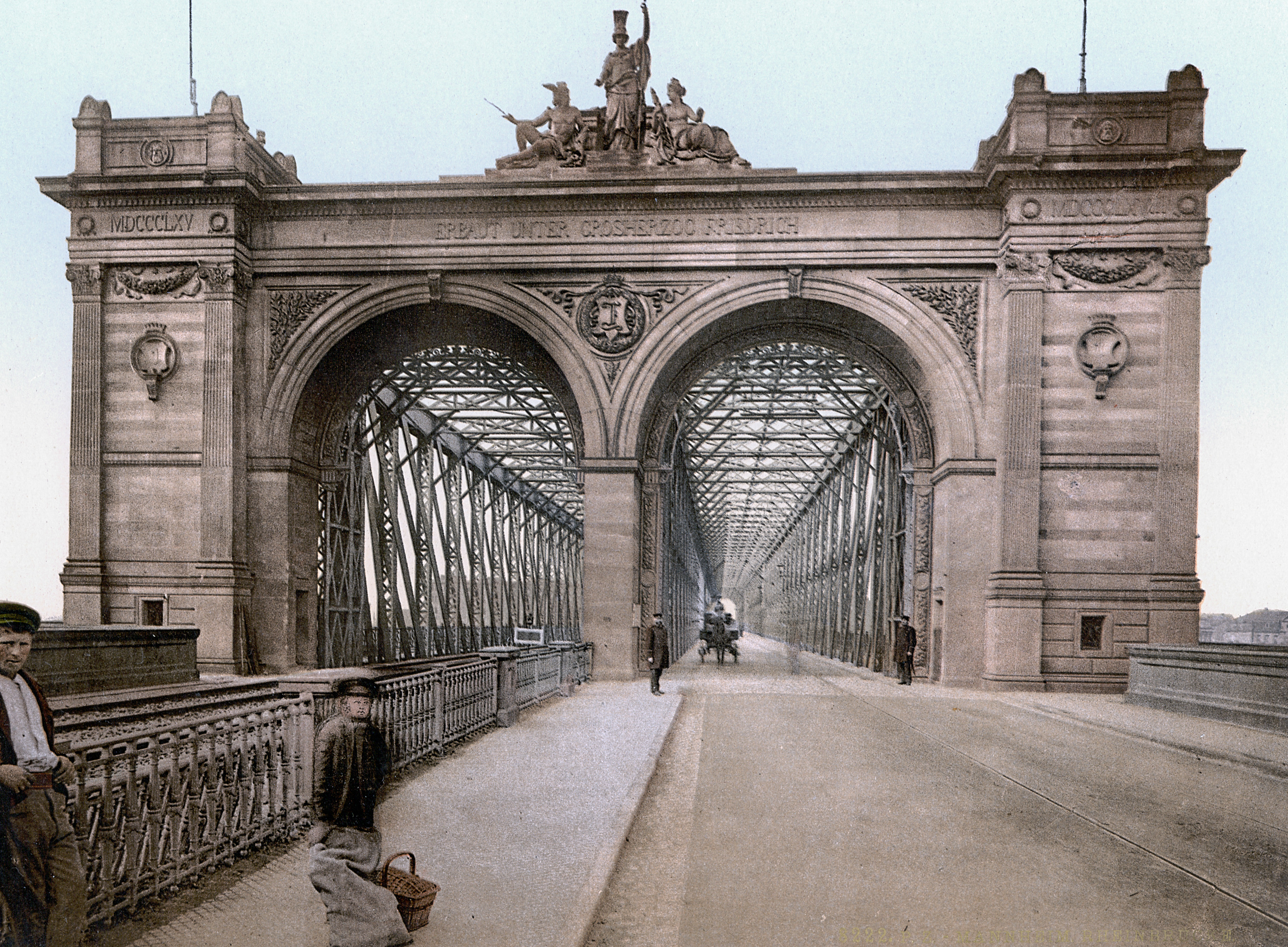 The Rhine Bridge, Mannheim, Baden, Germany